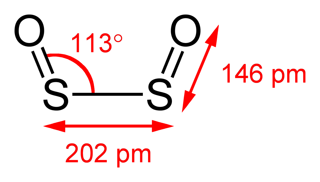 Approximate dimensions of the disulfur dioxide molecule, S2O2, in the gas phase. Data from Lovas F. J., Tiemann E., Johnson D. R. (1974). "Spectroscopic studies of the SO2 discharge system. II. Microwave spectrum of the SO dimer". The Journal of Chemical Physics 60 (12): 5005-5010.